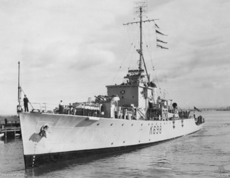 AWM Caption: WILLIAMSTOWN, VIC. C.1948. PORT BOW VIEW OF THE RIVER CLASS FRIGATE HMAS CONDAMINE (K698). CLEARLY SHOWN IS THE FORWARD TWIN 4 INCH MARK XIX MOUNTING WITH RAILS FOR ILLUMINATING ROCKETS ATTACHED TO ITS SIDE. FORWARD OF IT IS THE HEDGEHOG ANTI SUBMARINE MORTAR. NOTE THE TYPE 285 FIRE CONTROL RADAR ON THE HIGH ANGLE DIRECTOR ON THE BRIDGE. SC-1 RADAR IS FITTED AT THE TOP OF THE FOREMAST AND TYPE 276 ON PLATFORM HALFWAY UP THE MAST. (NAVAL HISTORICAL COLLECTION)